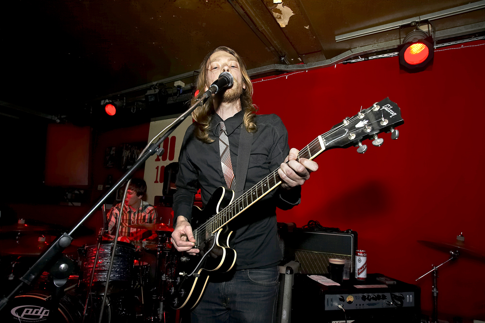 Clear Lake at The 100 Club, London, UK. January 2006.